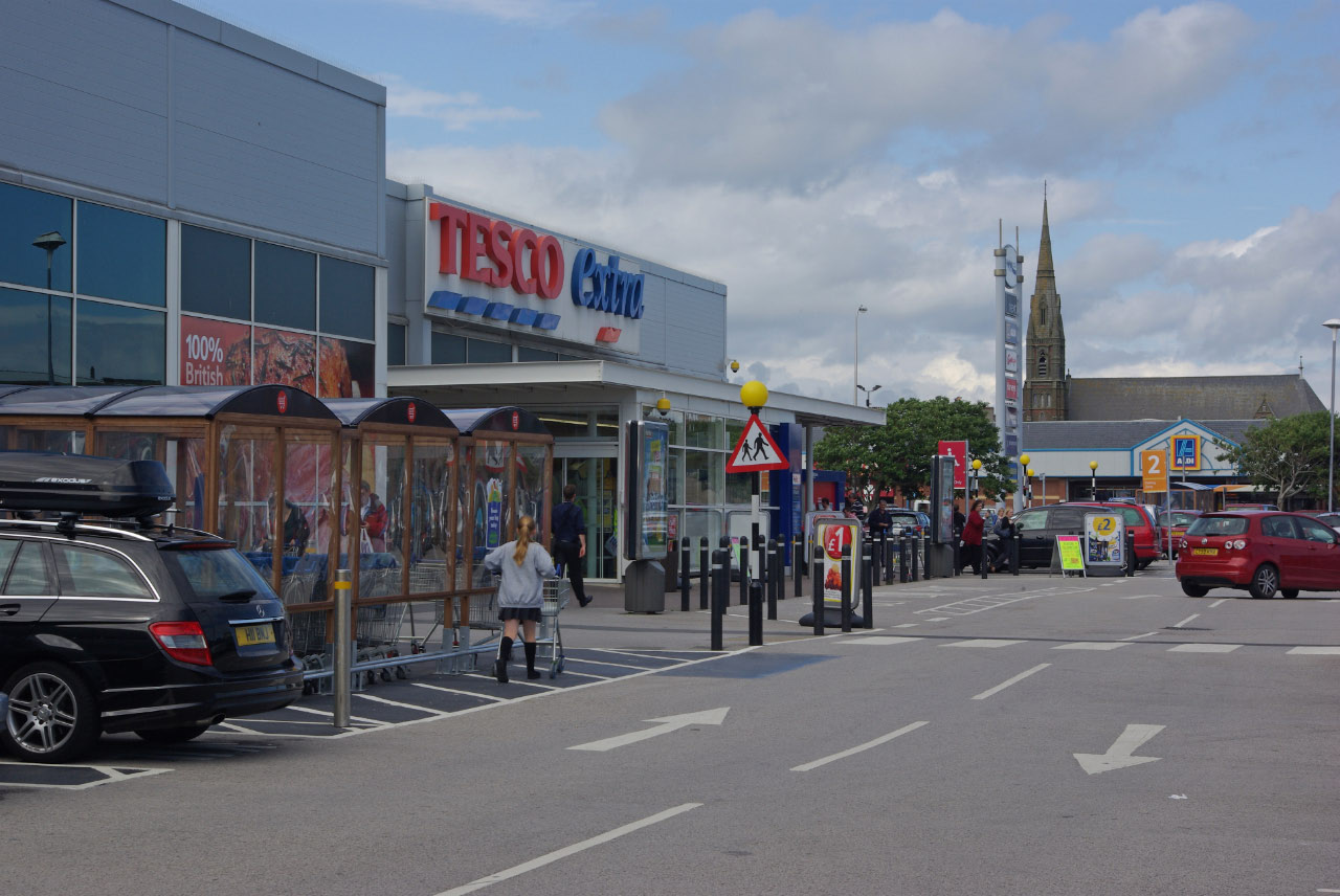 Tesco Extra store, Cornerhouse Retail Park, Barrow-in-Furness, England